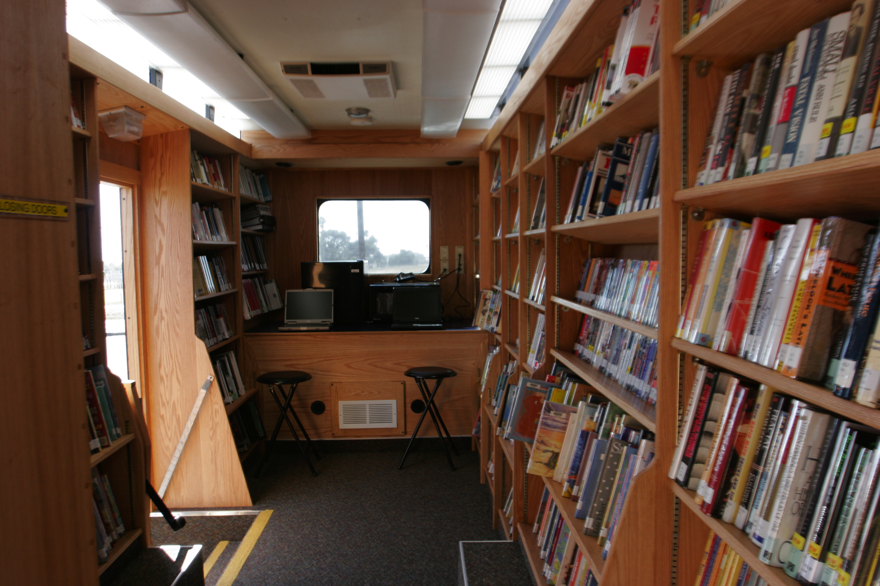 The South Mesa Library dedicated a new bookmobile to Camp Pendleton residents, Oct. 31. It was purchased with profits made by the base recycling center. The new bookmobile has a built-in satellite connection, which allows users to access free wireless Internet.